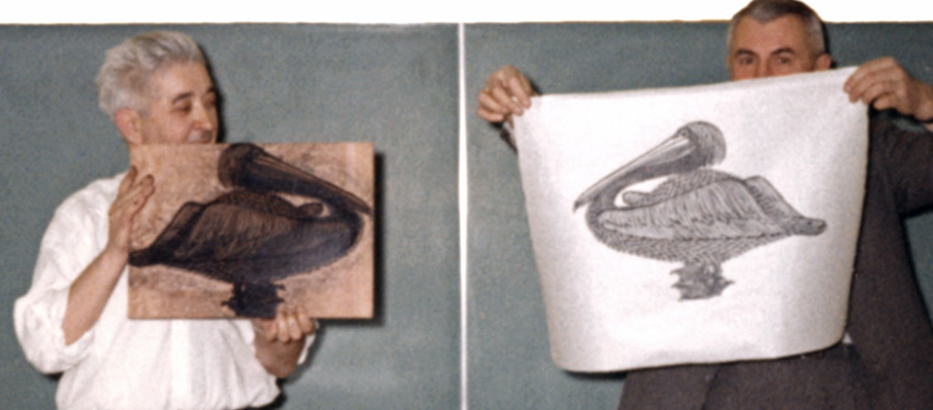 Jacques Hnizdovsky giving a printing demonstation at a school in Canada